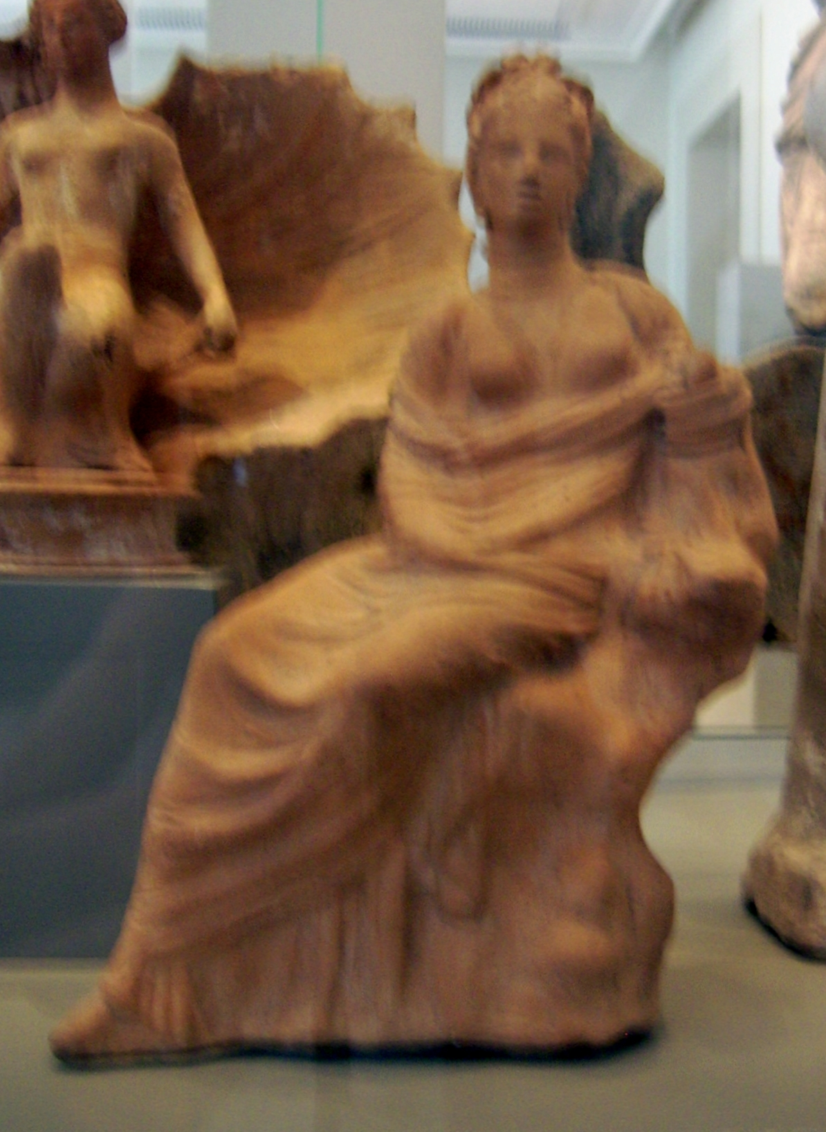 Tanagra figure